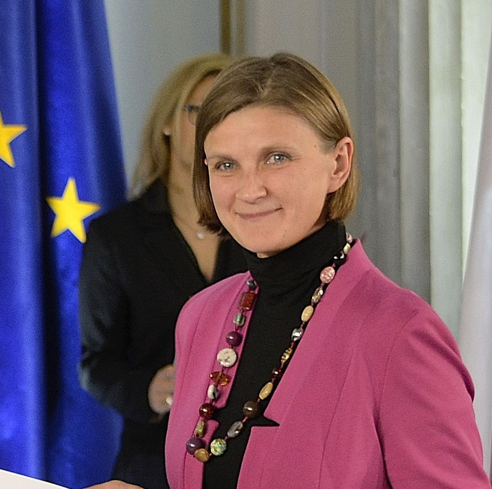 Małgorzata Wypych is a Polish politician seen here in 2015